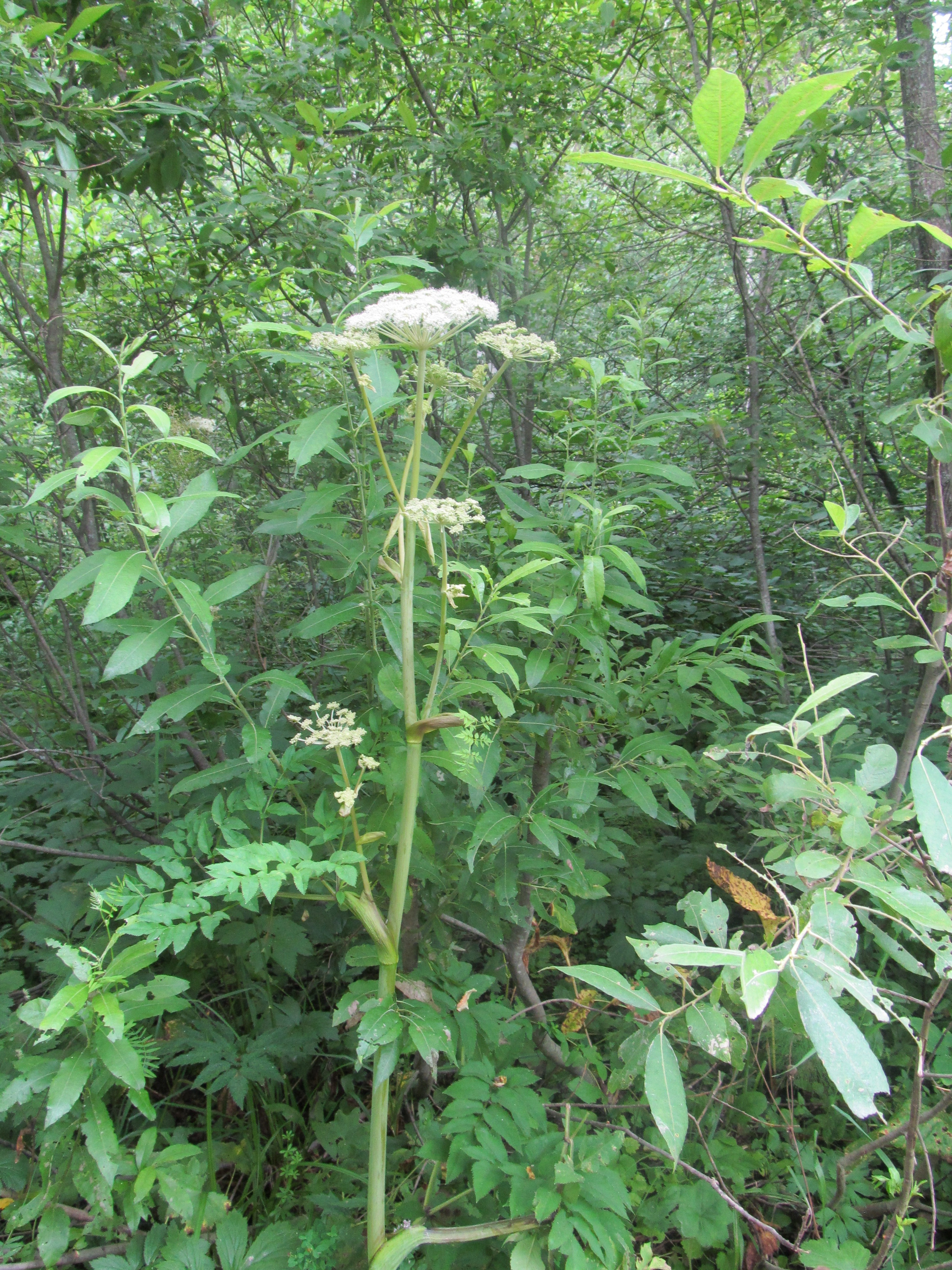 The plant which Bashkir national musical instrument made of is kurai